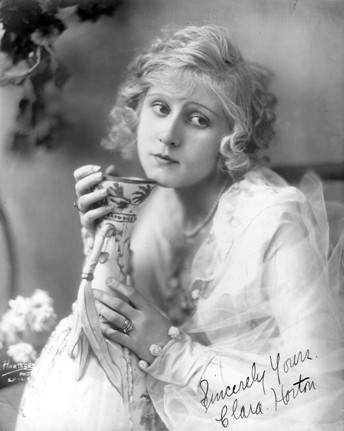 Portrait of American actress Clara Horton (1904–1976) by Fred Hartsook.